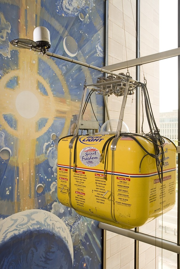 Steve Fossett's Bud Light Spirit of Freedom Balloon Capsule (A20030128000) on display in the "Pioneers of Flight" exhibit (Gallery 208), Smithsonian National Air and Space Museum, Washington, D.C., April 19, 2006. Photo by Eric Long. [SI-2006-5549]